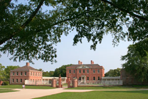 Tryon Palace, Tryon Palace Historic Sites and Gardens